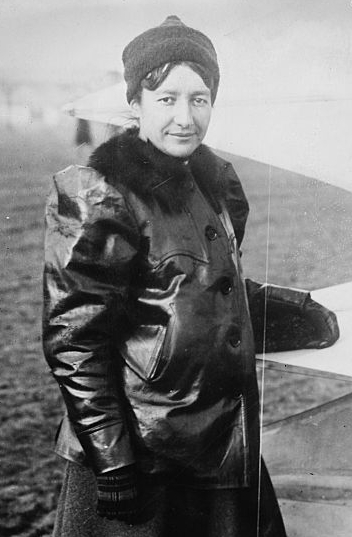 French aviator Marie Marvingt (1875-1963)